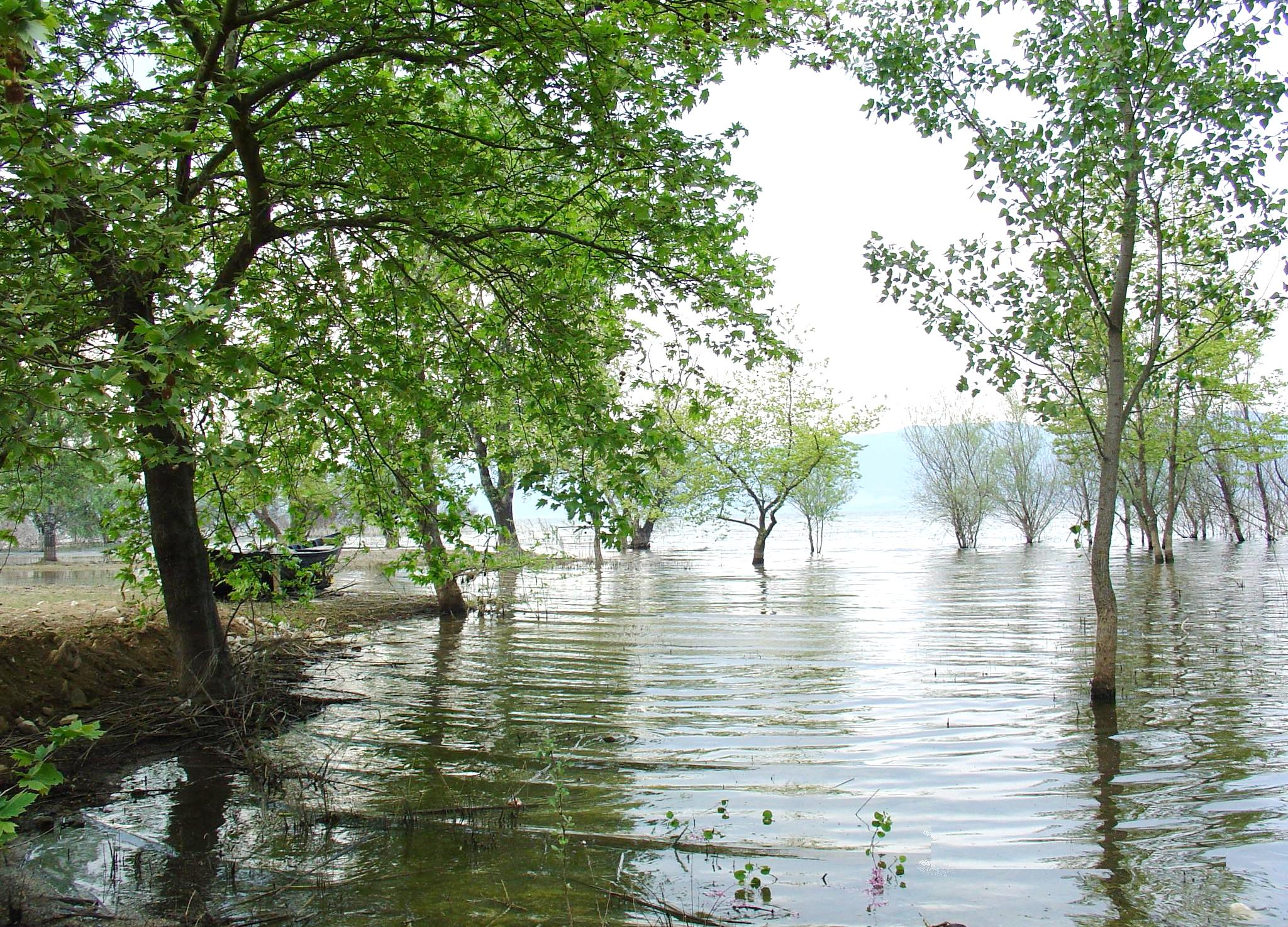 View of the Lake Volvi at Thessaloniki, Greece